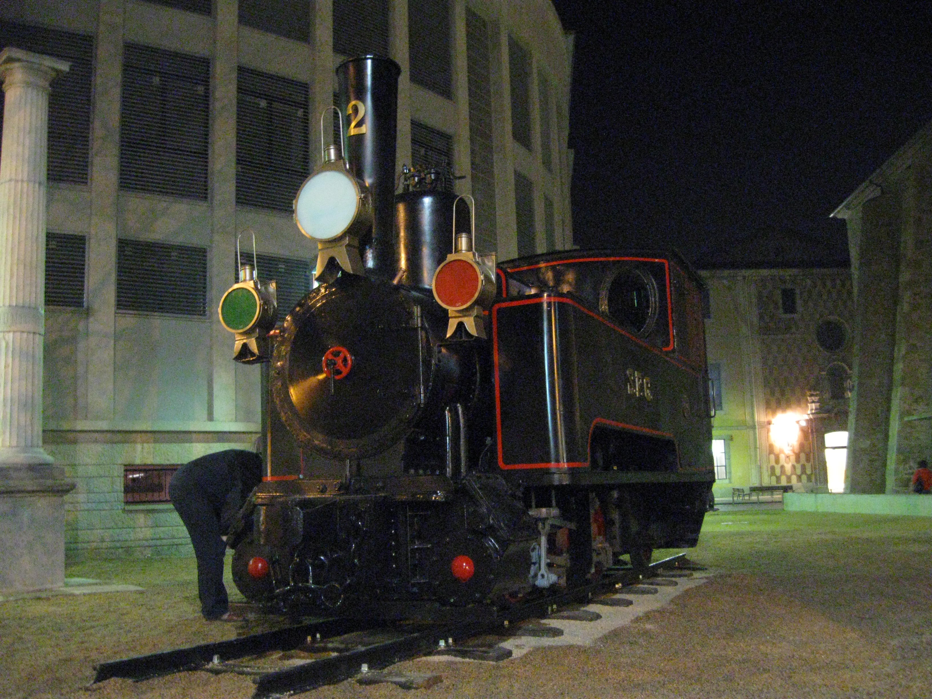 San Feliu de Guixols No. 2 (Krauss 2356 of 1890), a 750mm gauge 0-6-2T locomotive on display as part of the 150th anniversary of the opening of the line